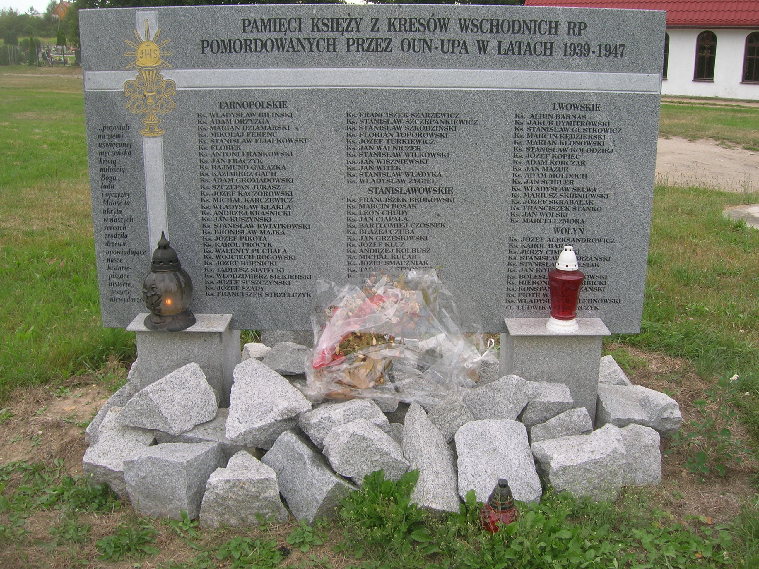 Monument to Polish priests - victims of OUN-UPA in Czerwona Woda